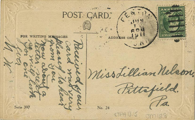 Postcard illustration of a man looking through a rack of postcards.